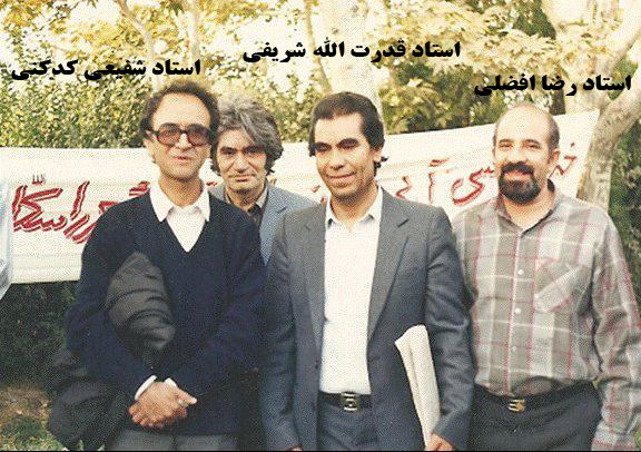 Three Iranian poets. From left to right: Mohammad-Reza Shafiei Kadkani- Ghodrat-o-llah Sharifi- Reza Afzali.